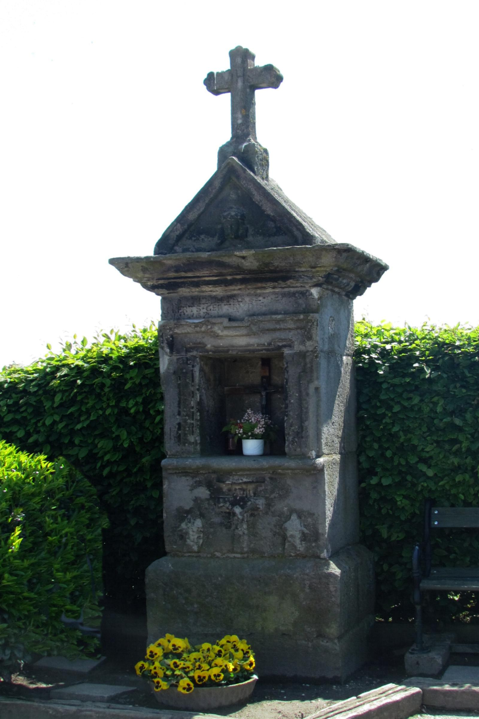 This is a photograph of an architectural monument.It is on the list of cultural monuments of Korschenbroich